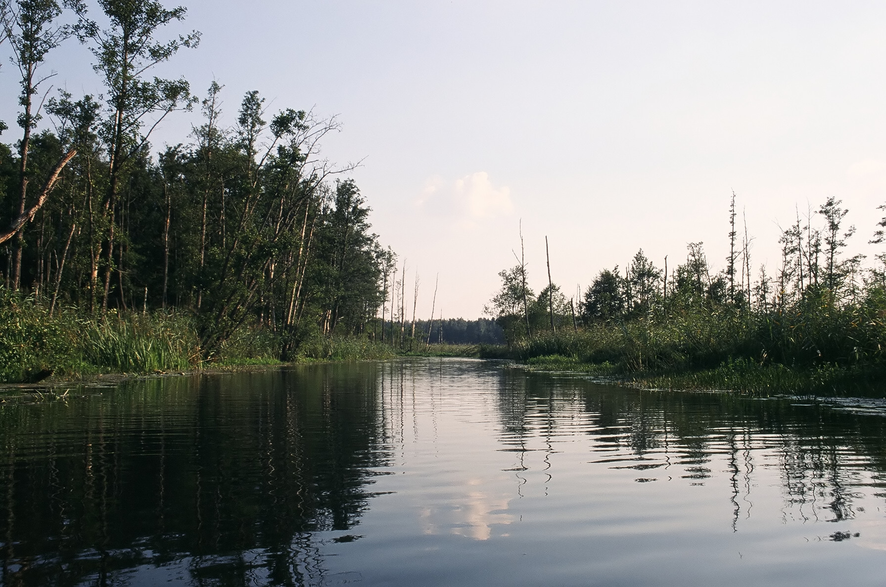 Rospuda river between lakes: Sumowo and Okragle, near Kotowina village, Suwalszczyzna region, north-east Poland